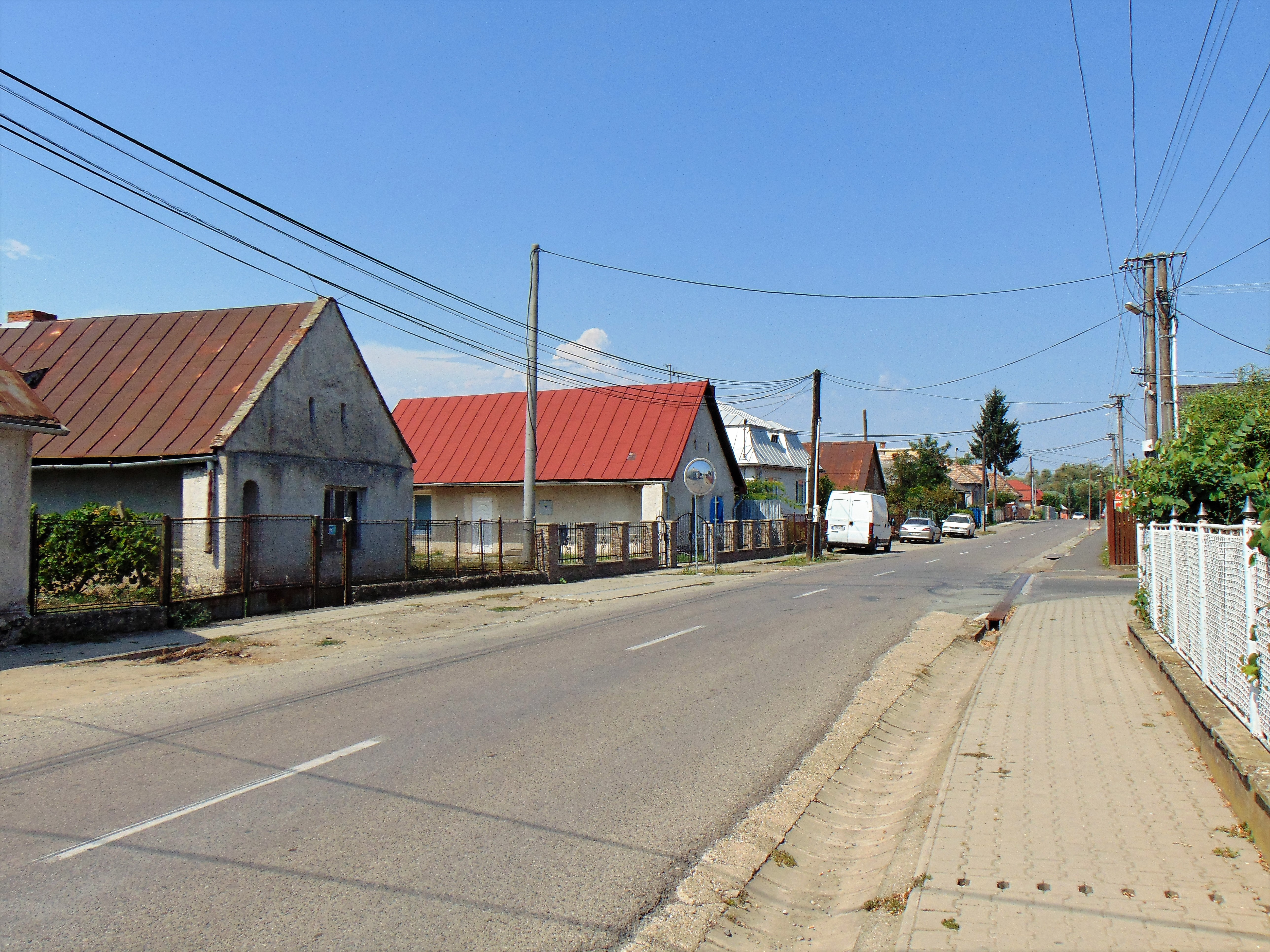 Main street in Pribeník/Perbenyik, south-eastern Slovakia.